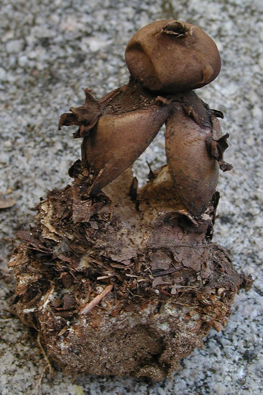 Geastrum fornicatum found under an oak tree in Crescenta Valley Community Regional Park, La Crescenta, Los Angeles Co., California, USA